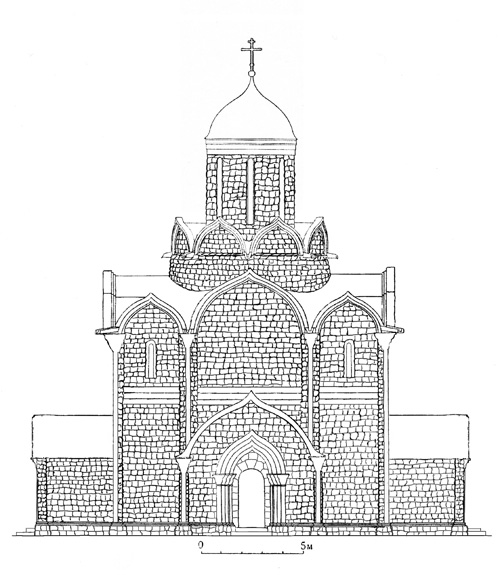 Moscow Kremlin, Assumption Cathedral. Reconstruction of the 14th century church.